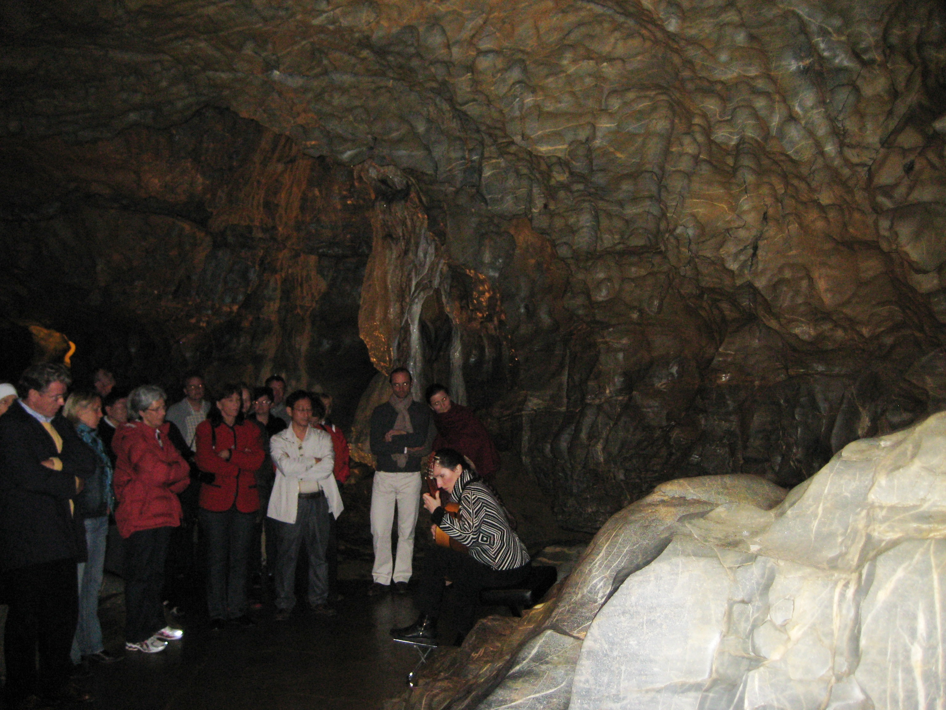 The Austrian guitarist Johanna Beisteiner during a concert at Lurgrotte Peggau, a dripstone cave in Styria (Austria) on 28-08-2011.